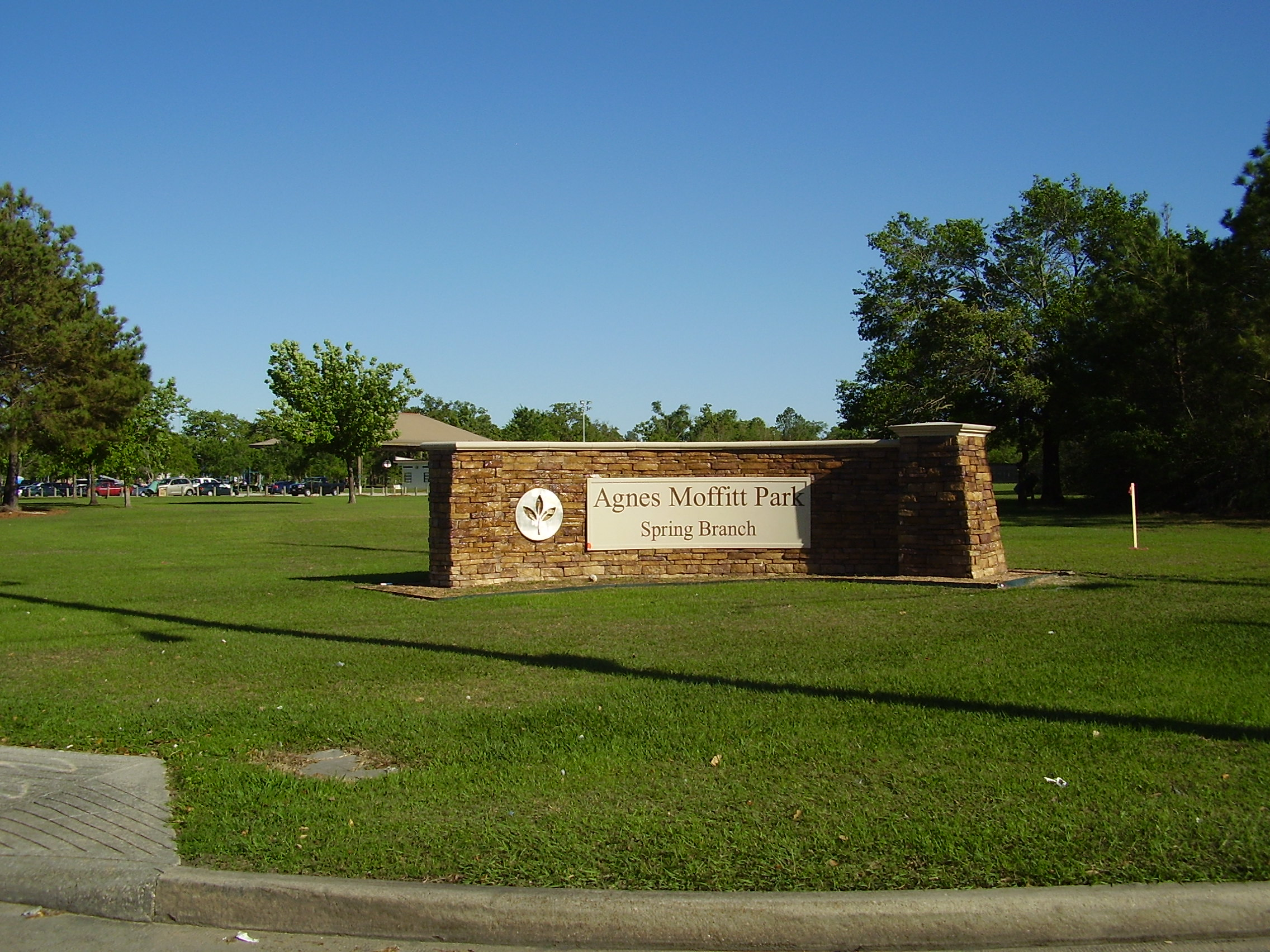 Agnes Moffitt Park - Spring Branch